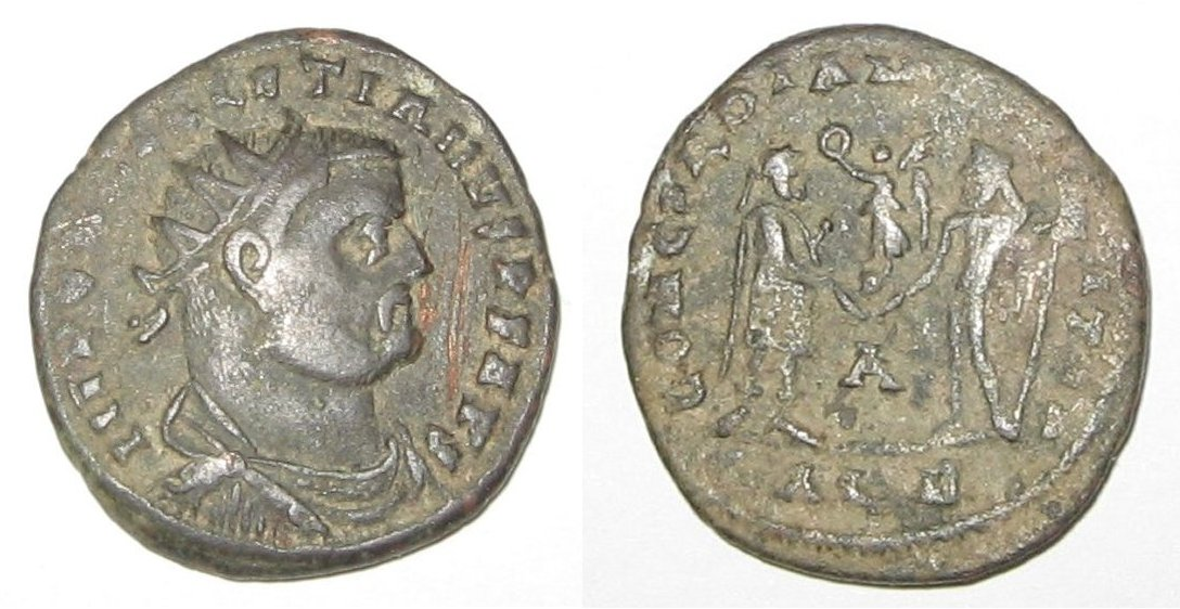 Diocletian. AD 284-305. Antoninianus (20mm, 3.40 g, 5h). Heraclea mint, 4th officina. Struck AD 291. IMP DIOCLETIANUS SP AUG, Radiate, draped, and cuirassed bust right CONCORDIA MILITUM, Emperor standing right, holding scepter and receiving Victory on globe from Jupiter standing left, holding scepter; Δ//·XXI·. RIC V 284